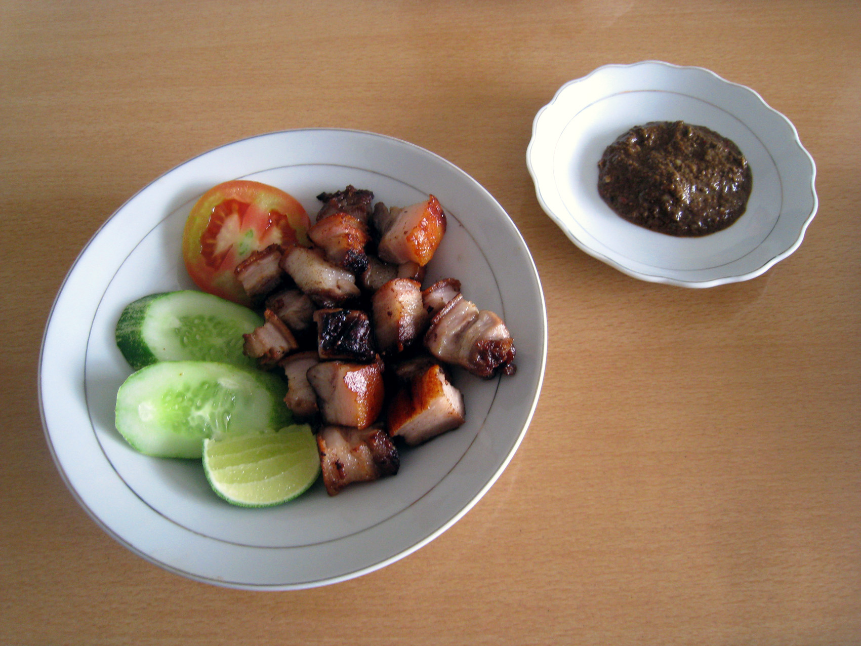 Batak cuisine, panggang grilled pork, with Batak style sambal.